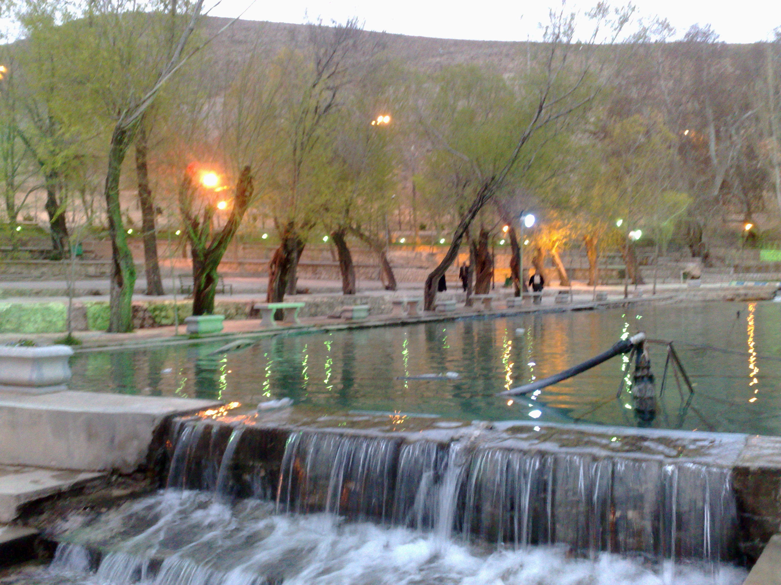 The Siasard resort near Boroujen, Iran